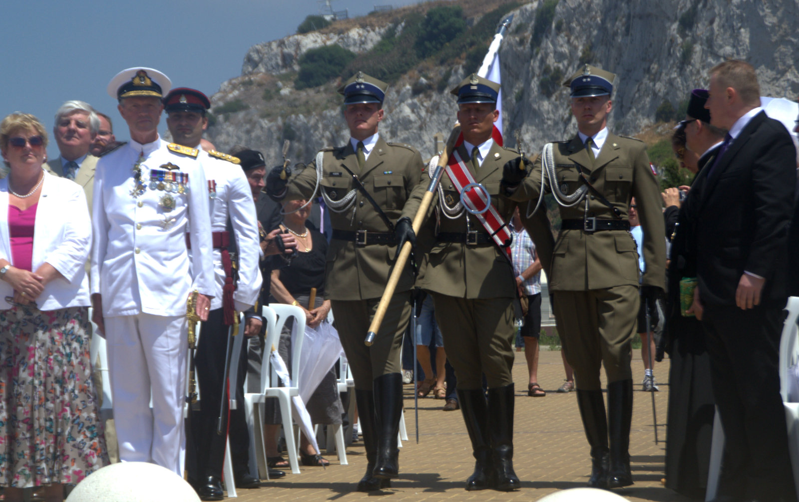 Sikorski 70th Commemoration, Gibraltar